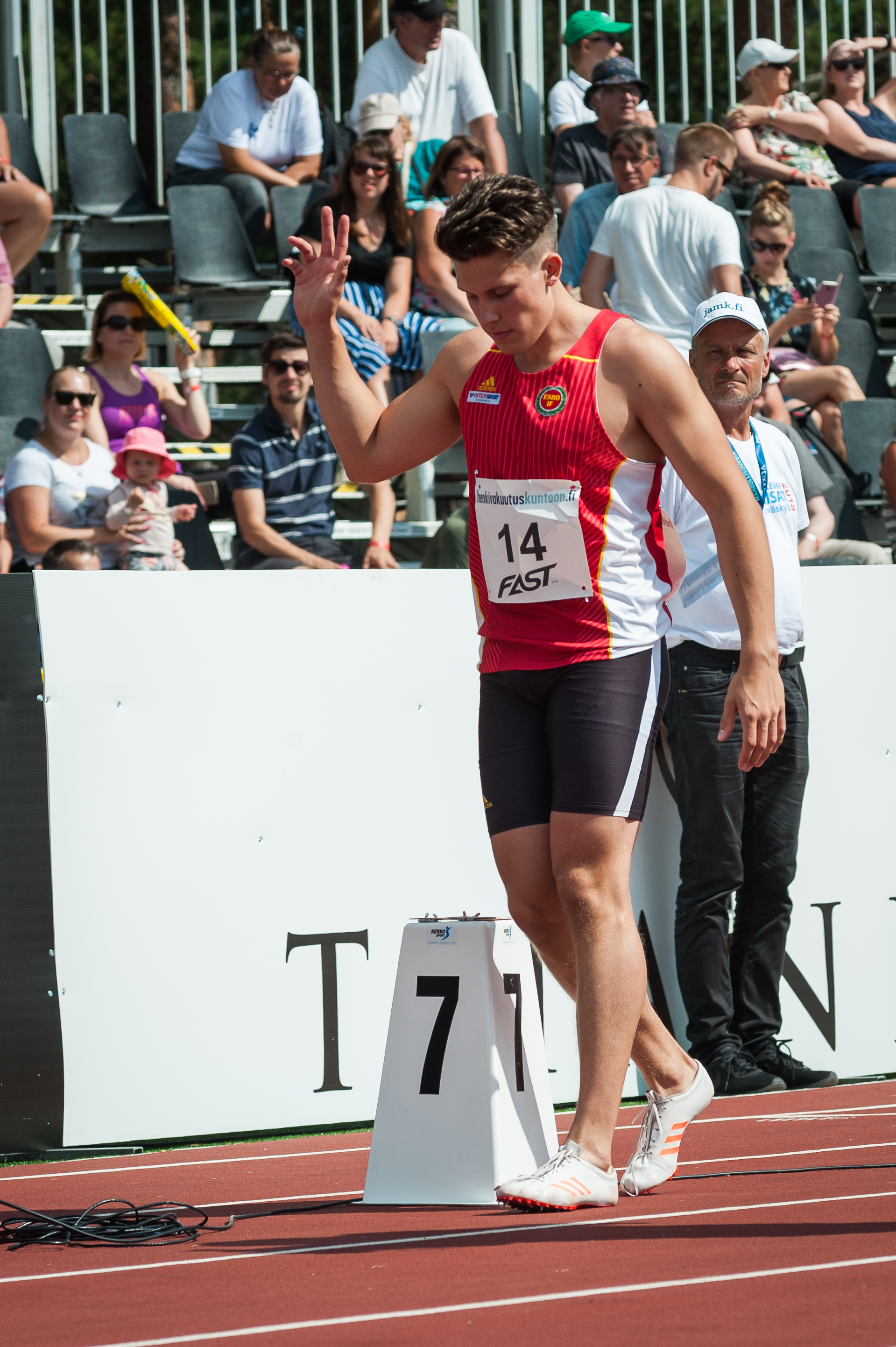 Men's 200 m competition at the 2018 Kalevan Kisat, the Finnish championships in athletics, in Jyväskylä, Finland.